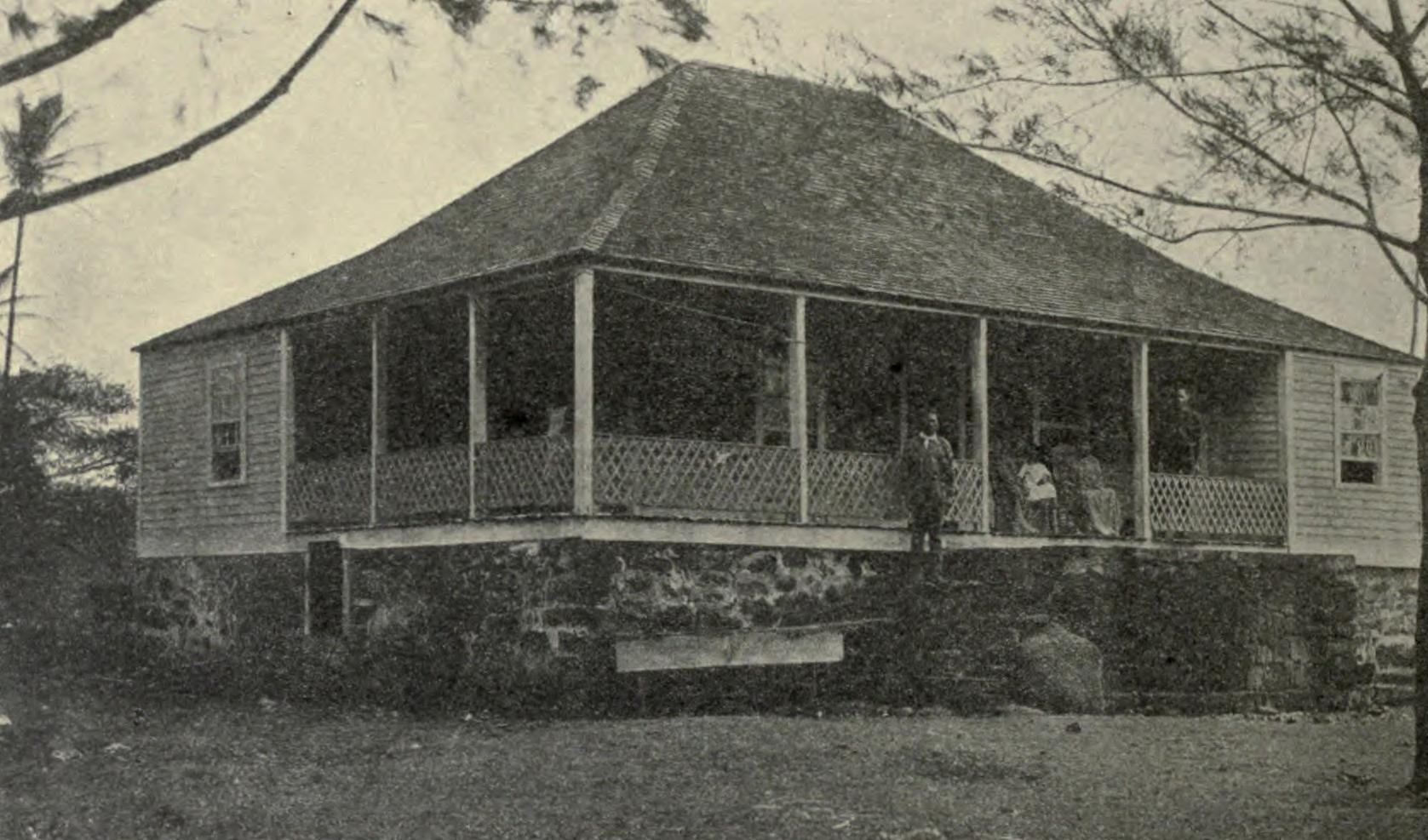 House at Kaimū, Hawaiʻi, in 1888.